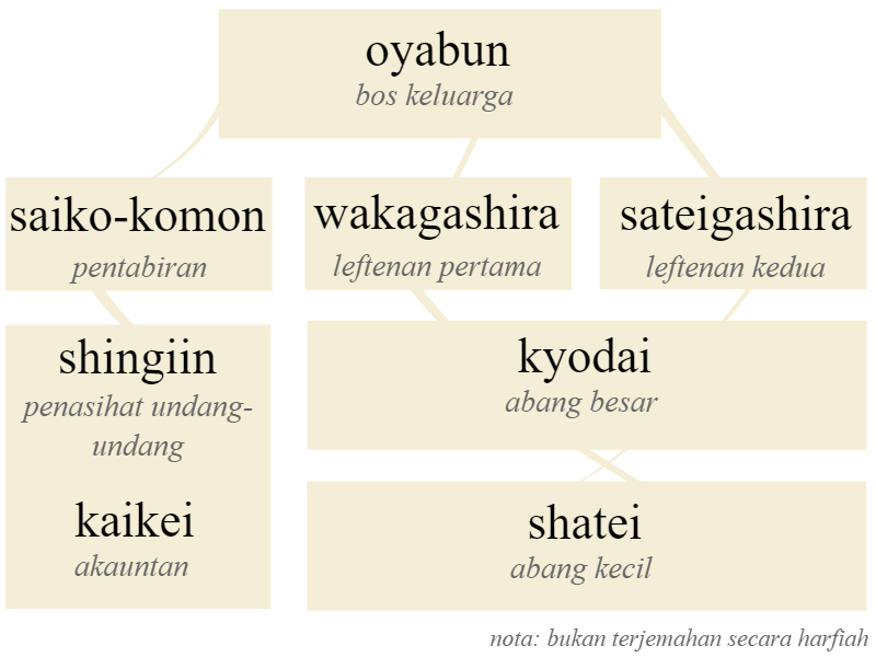 Yakuza hierarchy in Malay language